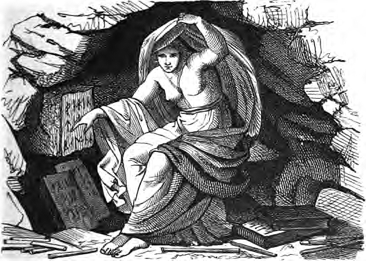 Captioned as "Die Seherin Groa". The seeress Gróa in her mound, with various runic inscriptions on what appear to be stone slabs to the left of her.